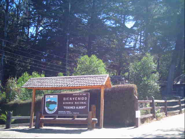 Entry for the Natural Reserve "Federico Albert" in Chanco,Chile.